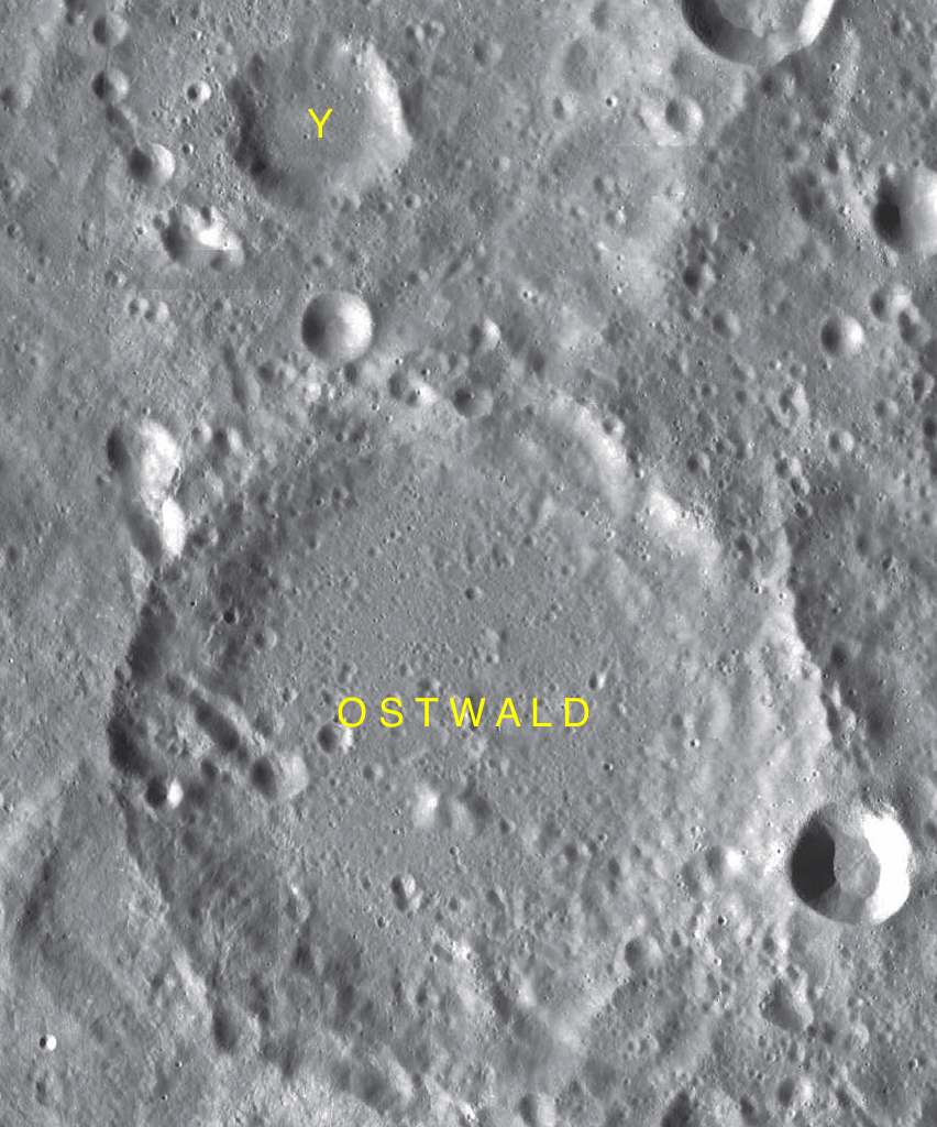 Part of the chart LAC-65 used for the presentation